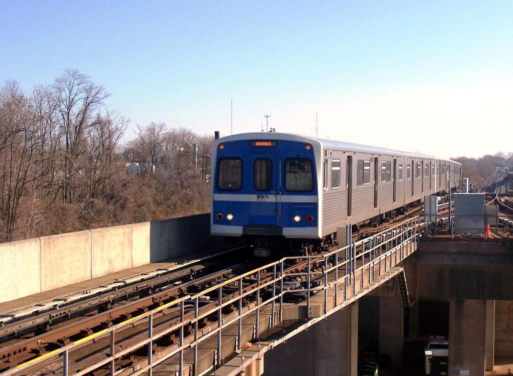 MTA Maryland Metro Subway TransitAmerica car 178 entering the Reisterstown station